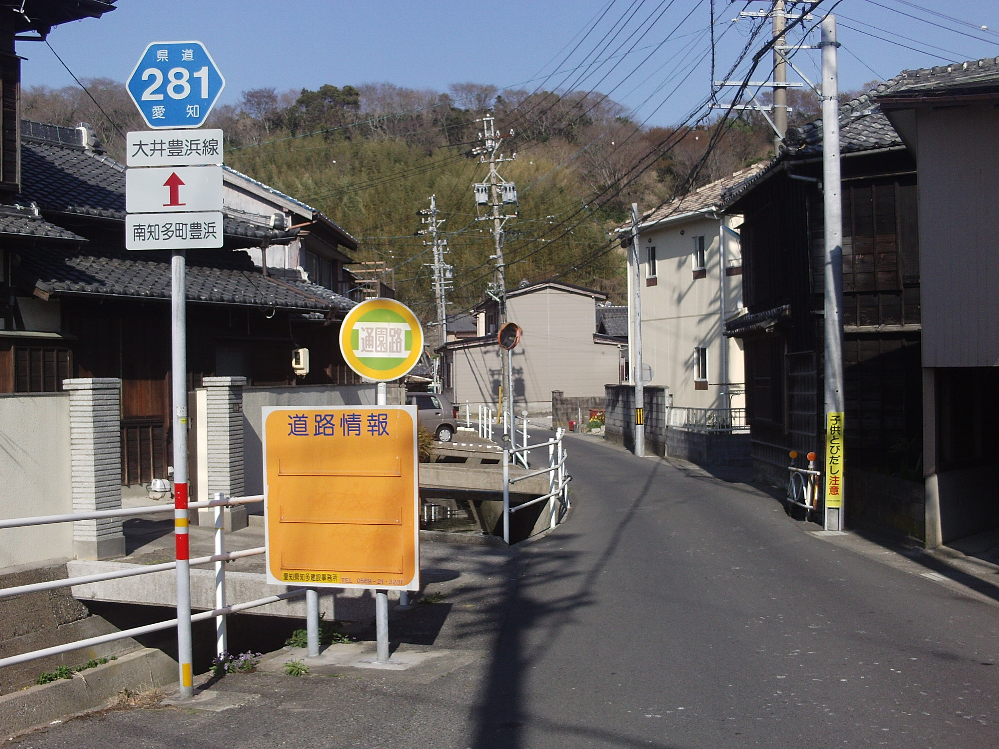 Aichi prefectural road No.281 in Toyooka Minamichita-cho Chita-gun, Aichi.